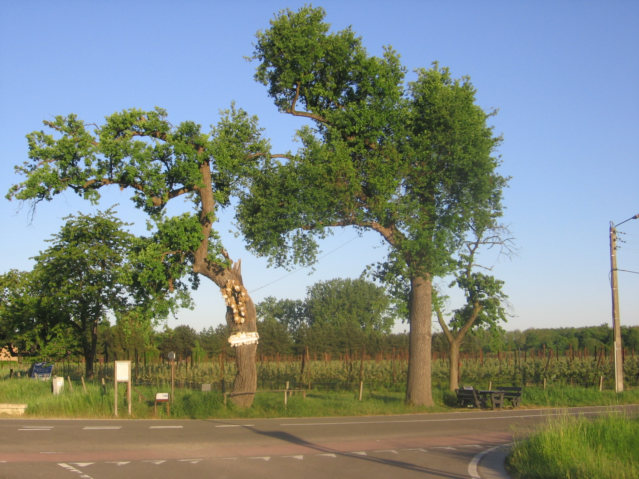 The Onzelieveherenboom; a 1200 year old oak tree, possibly the oldest tree in Belgium.